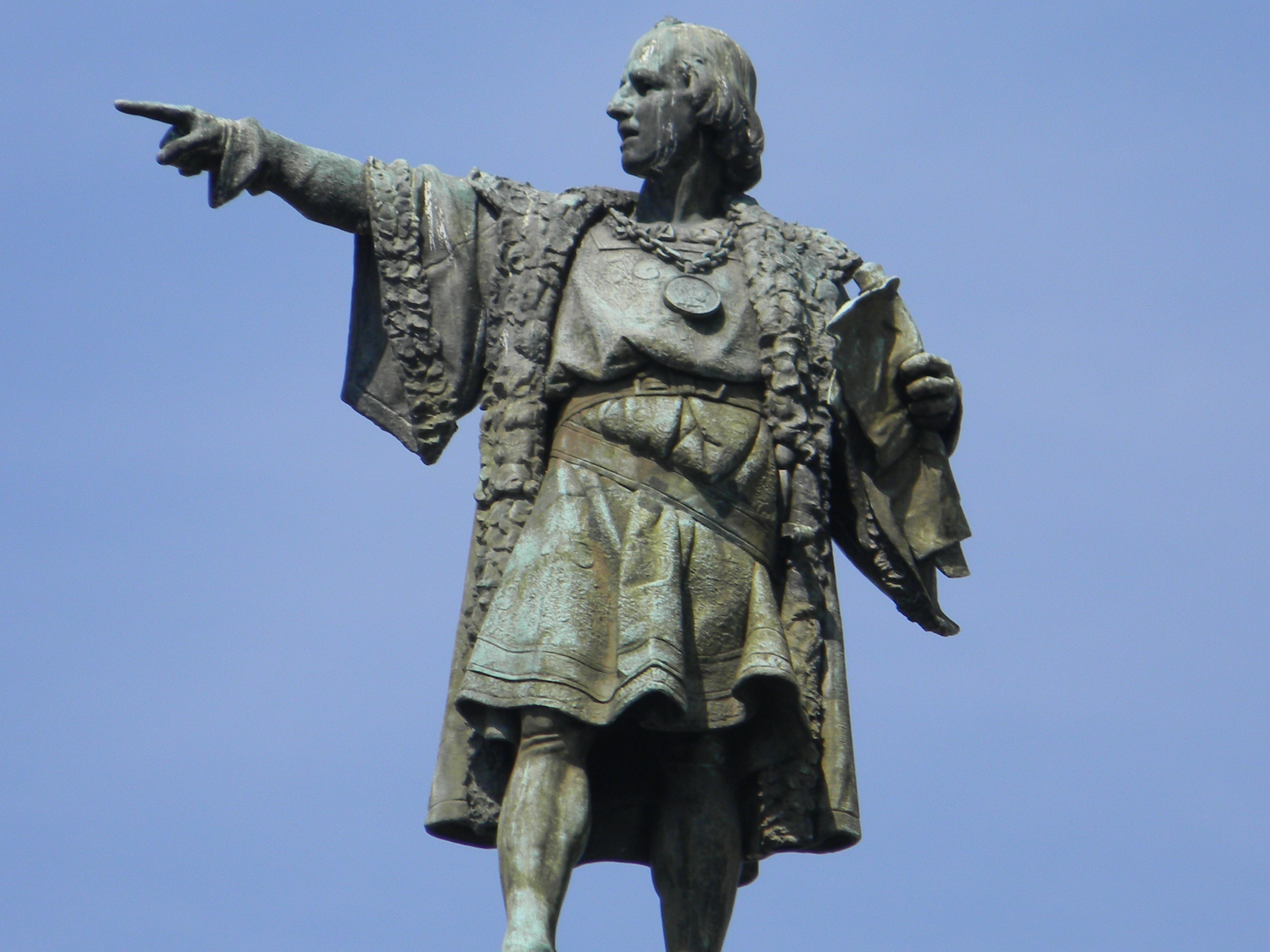 Monument a Colom (Barcelona), Spain